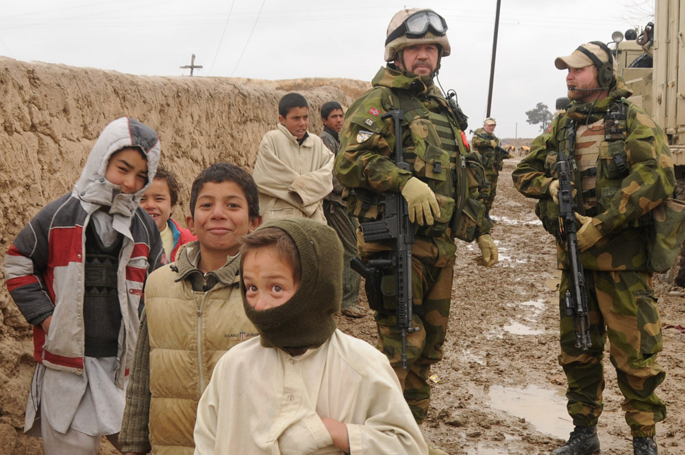 Children stand in front of International Security Assistance Force soldiers with the Norwegian Support Element and the Norwegian Operational Mentor and Liaison Team in Mazar-e-Sharif, Feb. 4. The Norwegians are helping ISAF in assisting the Afghan government in extending and exercising its authority and influence across the country, creating the conditions for stabilization and reconstruction.